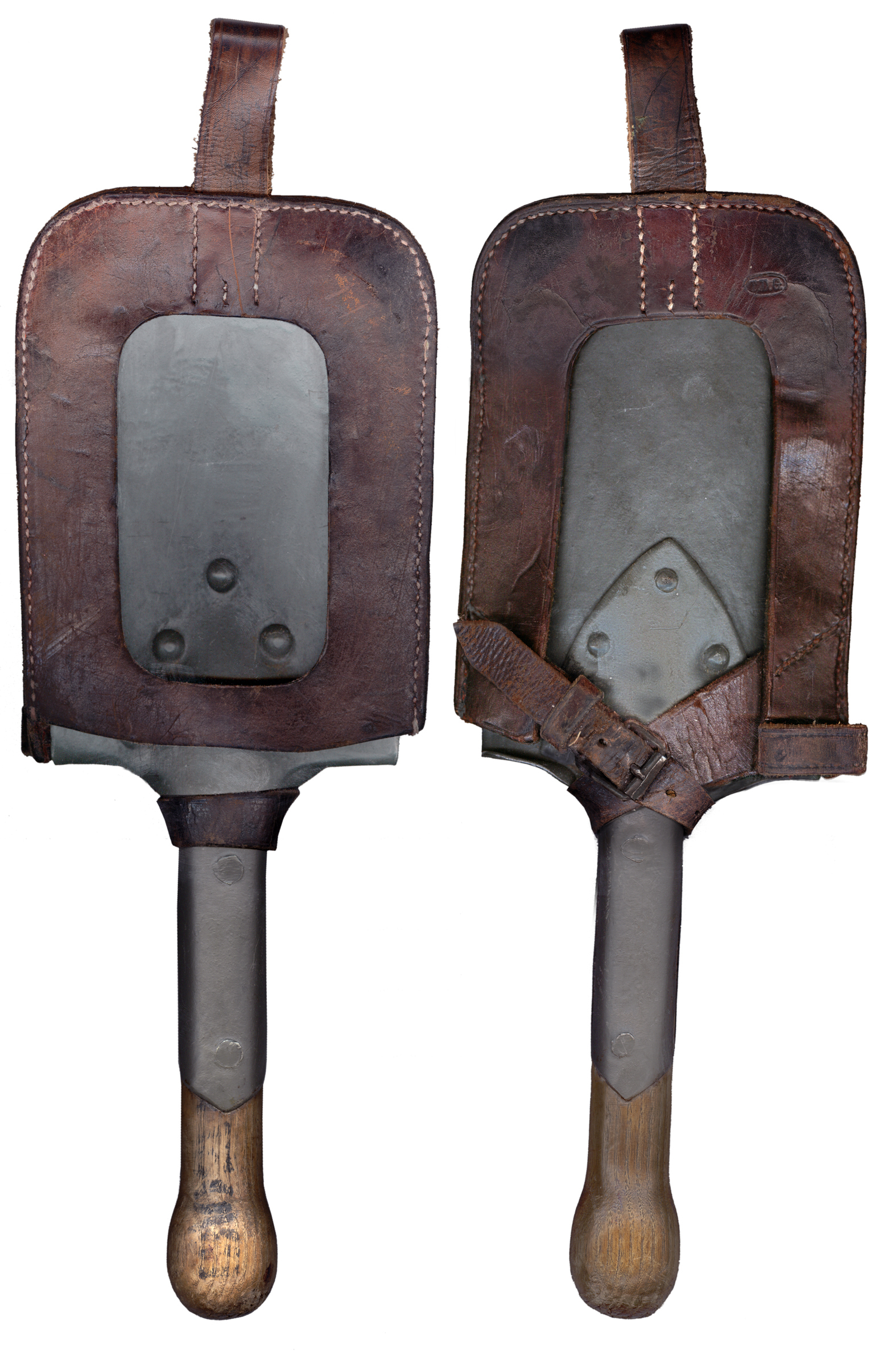 German spade from the Great War